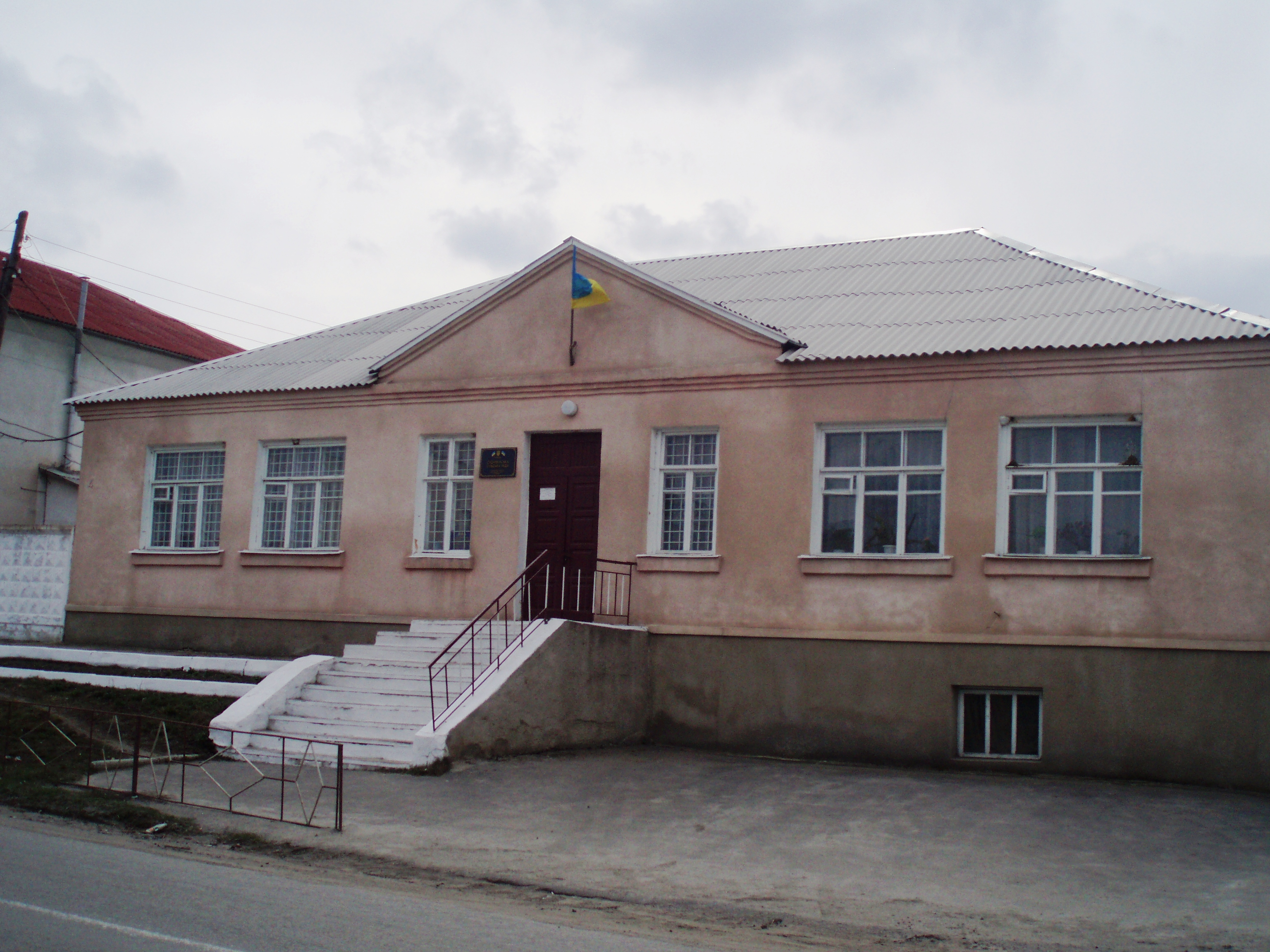 Village сouncil village Sudilkov